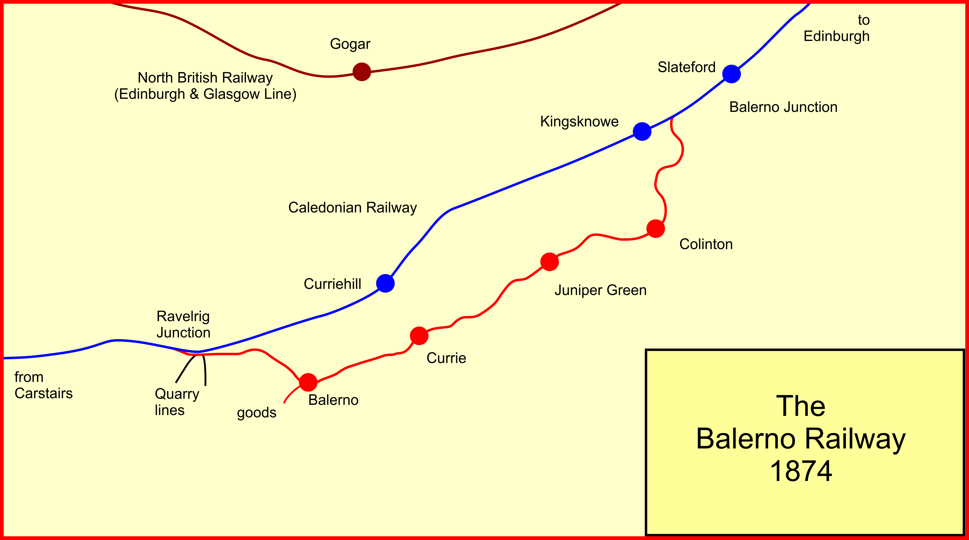 System map of the Balerno Railway